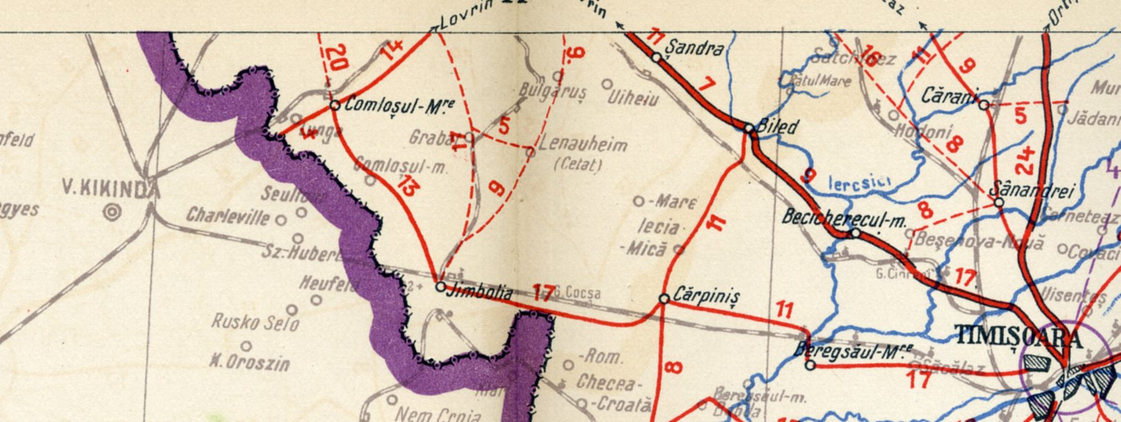 Map of three french-named villages in Banat, 1931, from a romanian road-atlas